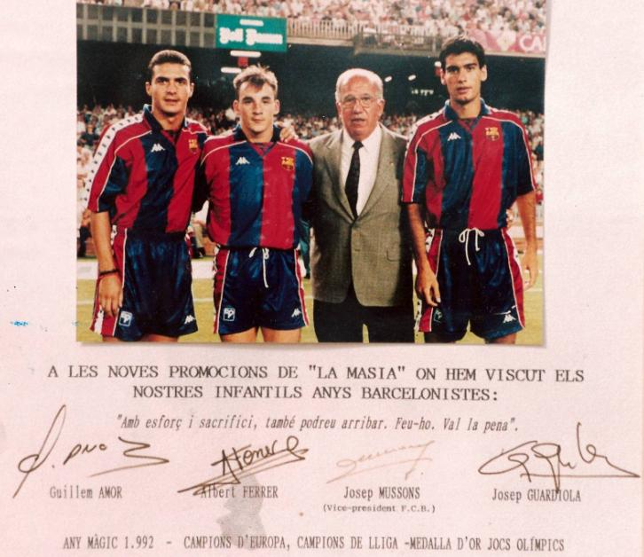 Foto from 1992 which was displayed for many years at La Masia (FC Barcelona academy), depicting Guillem Amor, Albert Ferrer, Josep Mussons and Josep Guardiola. Their signature, in Catalan, encourages future young Barça players by saying "With effort and sacrifice, you can also make it. Just do it, it is worth!"